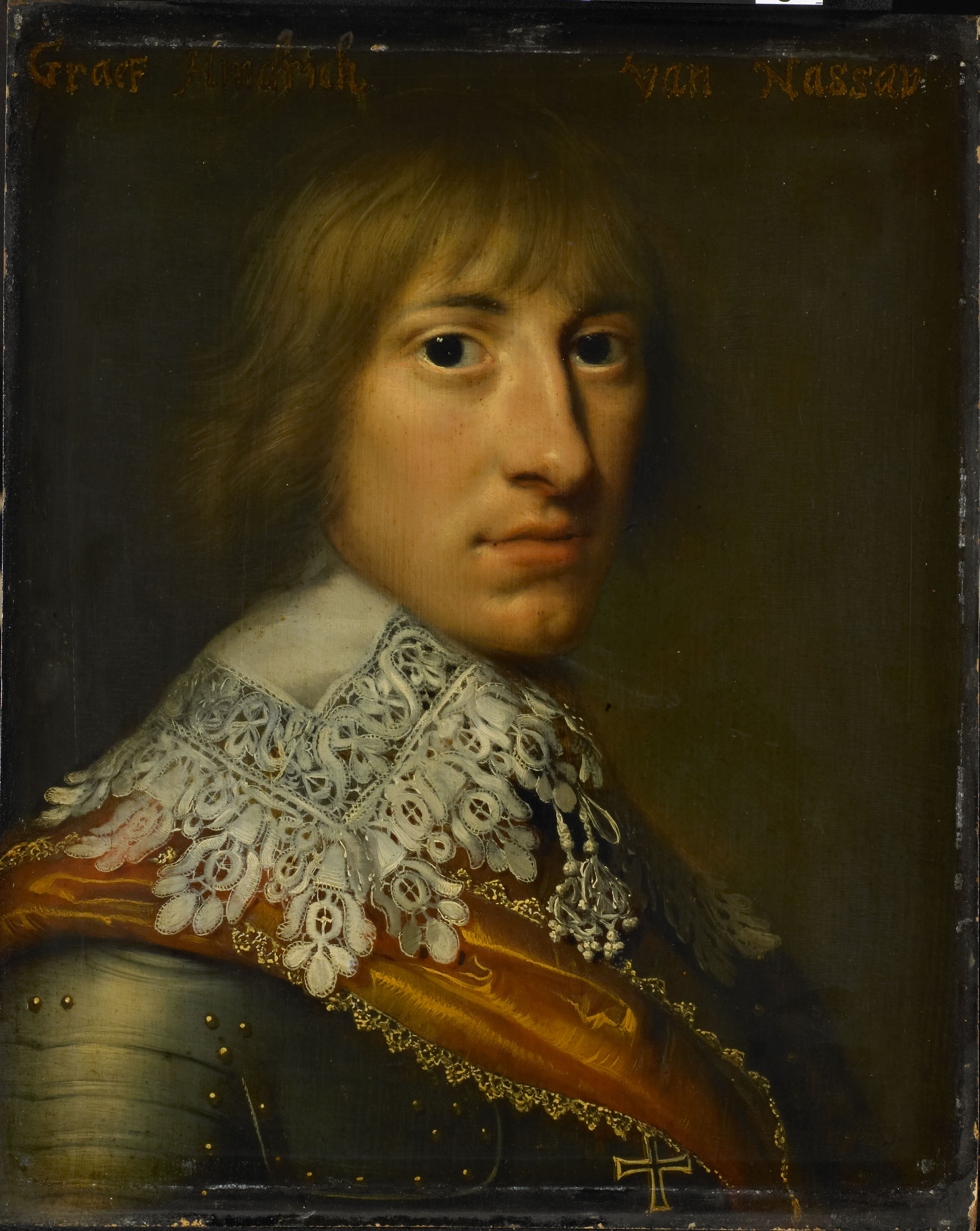 Part of the Leeuwarden series, a series of portraits of military officials from the Eighty Years' War as well as members of the House of Orange-Nassau, first documented in 1633 in the Stadhouderlijk Hof (Stadholder's Court) in Leeuwarden (see Object history).